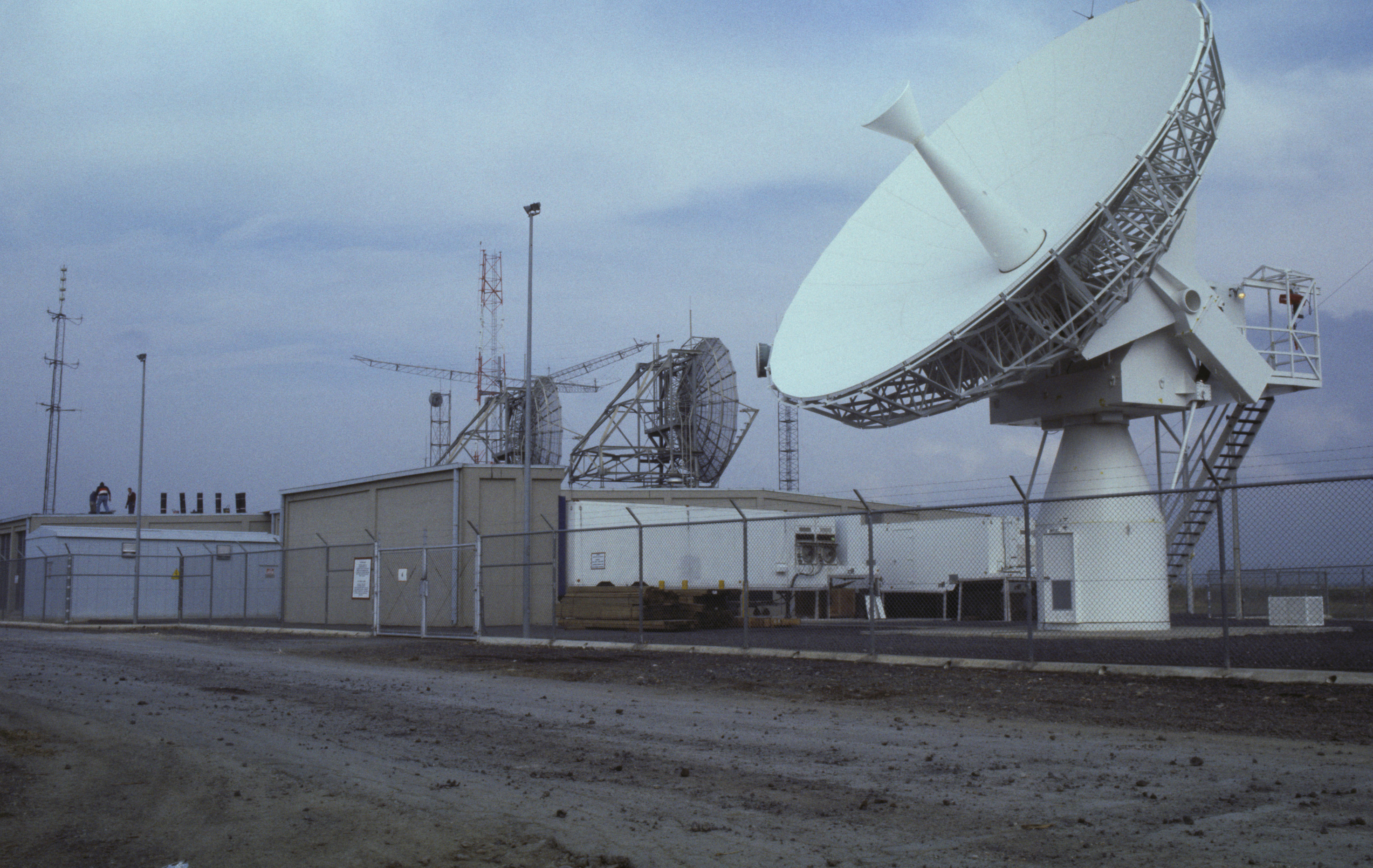 The satellite communications dish located adjacent to the message center of the Navy Communications Area Master Station. The dish was erected in early 1987 and is expected to come on line by the spring of 1987. Location: Naval Air Station, Sigonella, Italy.